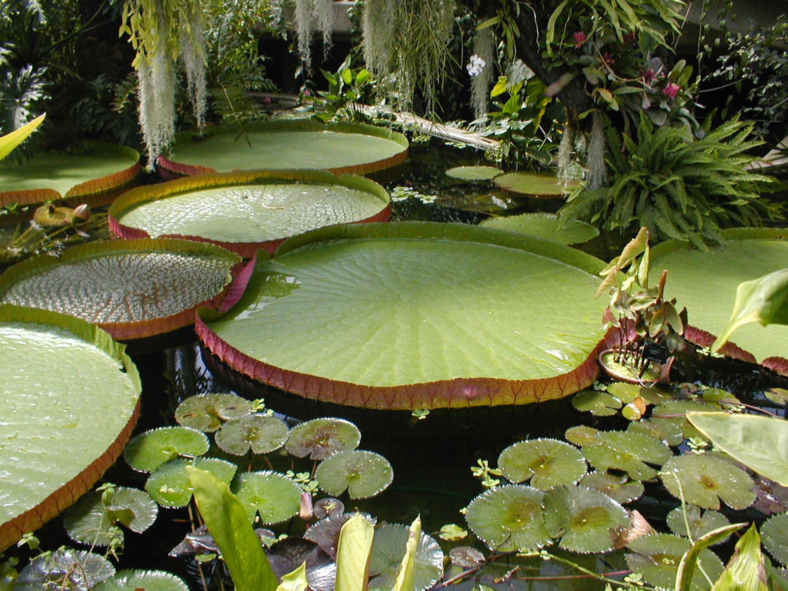 A Water Lilly